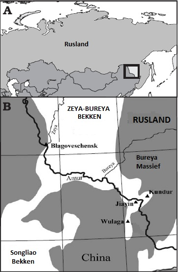 A. Location of the Amur/Heilongjiang Region in Asia. B. A sketch map of the Amur/Heilongjiang Region (modified from Kirillova 2003). The main dinosaur sites are indicated by solid triangles.